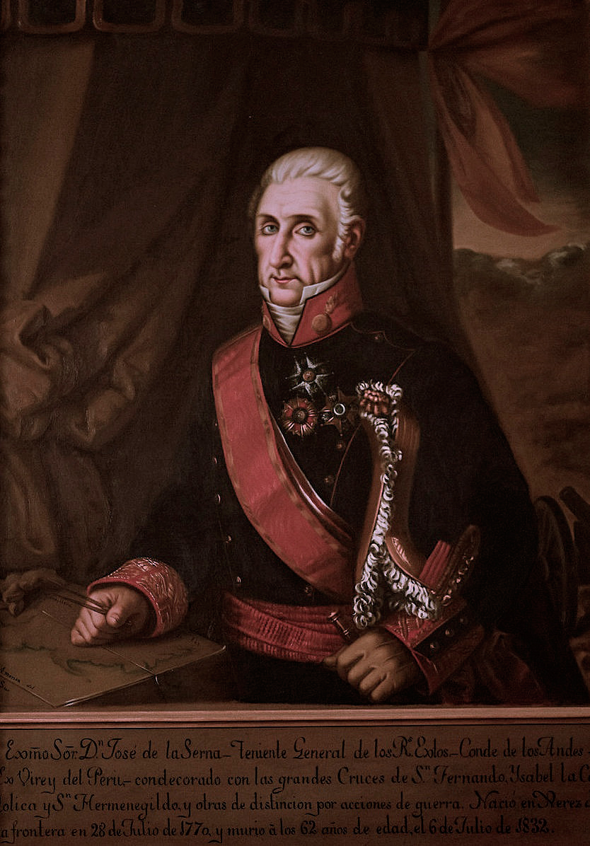 Portrait of the Count of the Andes, José de la Serna, last viceroy of Peru